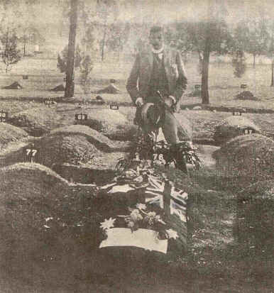 Major James Francis Thomas (1861-1946), standing behind the grave of Breaker Morant and Peter Handcock in a civilian section of Pretoria's Church Street cemetery, 50m from the official Commonwealth military plot containing the remains of fallen soldiers from Britain, Ireland, Australia, Canada, South Africa and New Zealand.[1] ↑ O'Loughlin, Ed (3 July 1998), “Facelift for 'Breaker' Morant's grave”, in Mail & Guardian[1], Johannesburg Inscription on headstone: To the memory of P. HANDCOCK and HENRY H. MORANT 27th Feb 1902 "He that loseth his life shall find it" Inscription on modern footstone: In Memoriam HARRY "THE BREAKER" MORANT and PETER HANDCOCK Executed 100 years ago in Pretoria 27th FEB 1902 "A MAN'S FOES WILL BE THOSE OF HIS OWN HOUSEHOLD" ST MATTHEW CHAPTER 10 VERSE 36